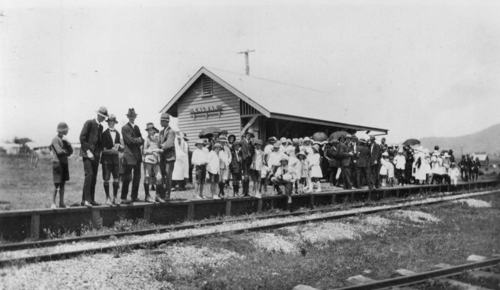 Kalbar railway station, Queensland, 1917. Pssengers awaiting the excursion train at the Kalbar station.